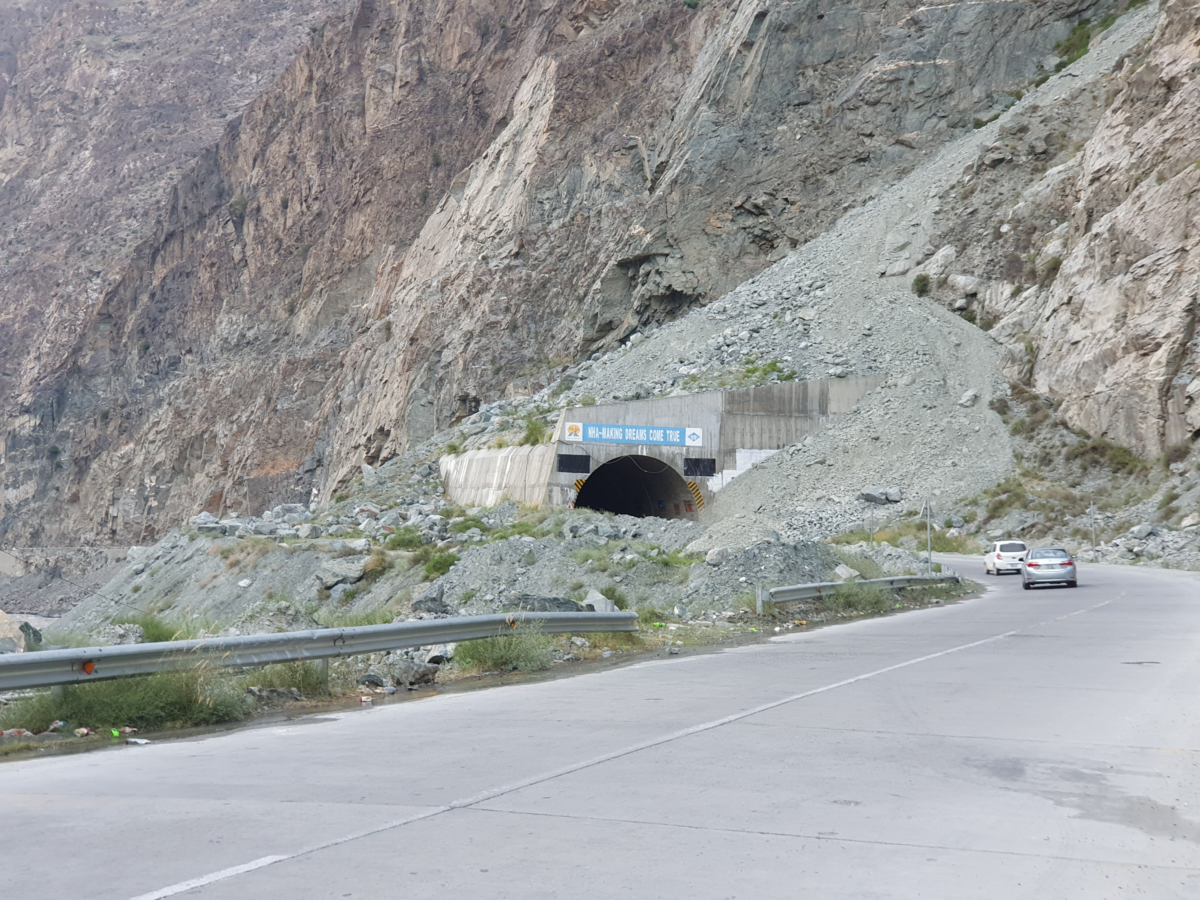 Tunnel situated in between Hunza and Gilgit